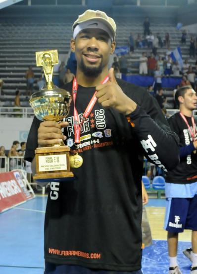 Kyle Lamonte, basketball player of Peñarol (Argentina)